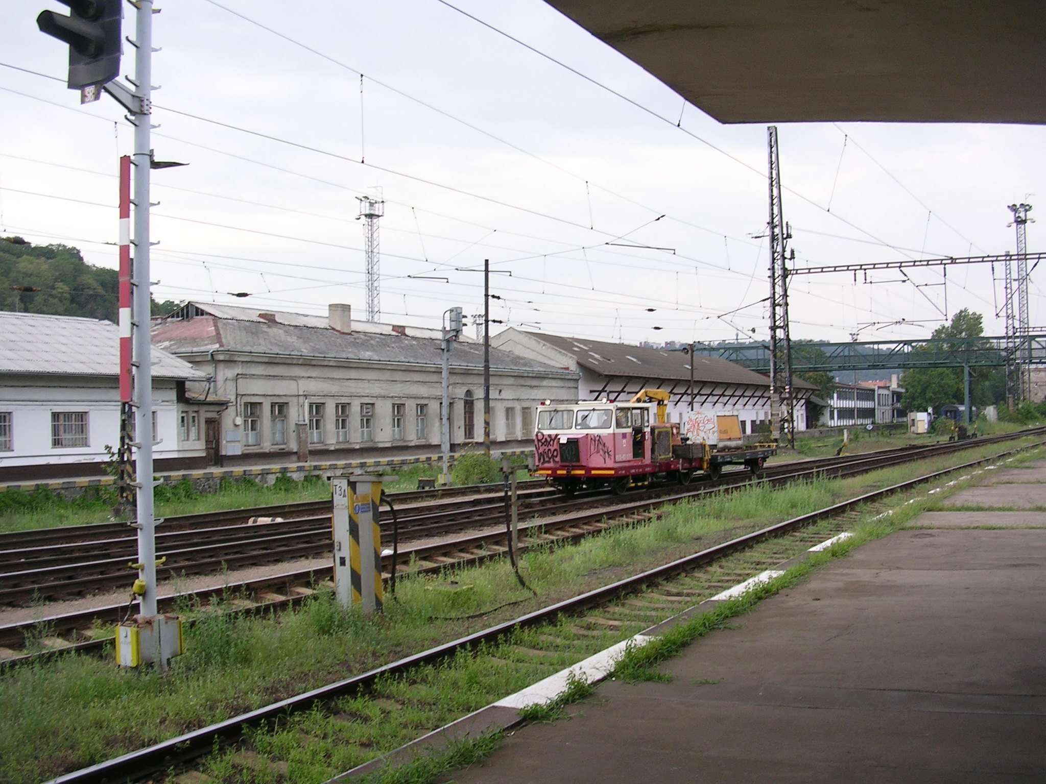 Smíchov, Prague, the Czech Republic.